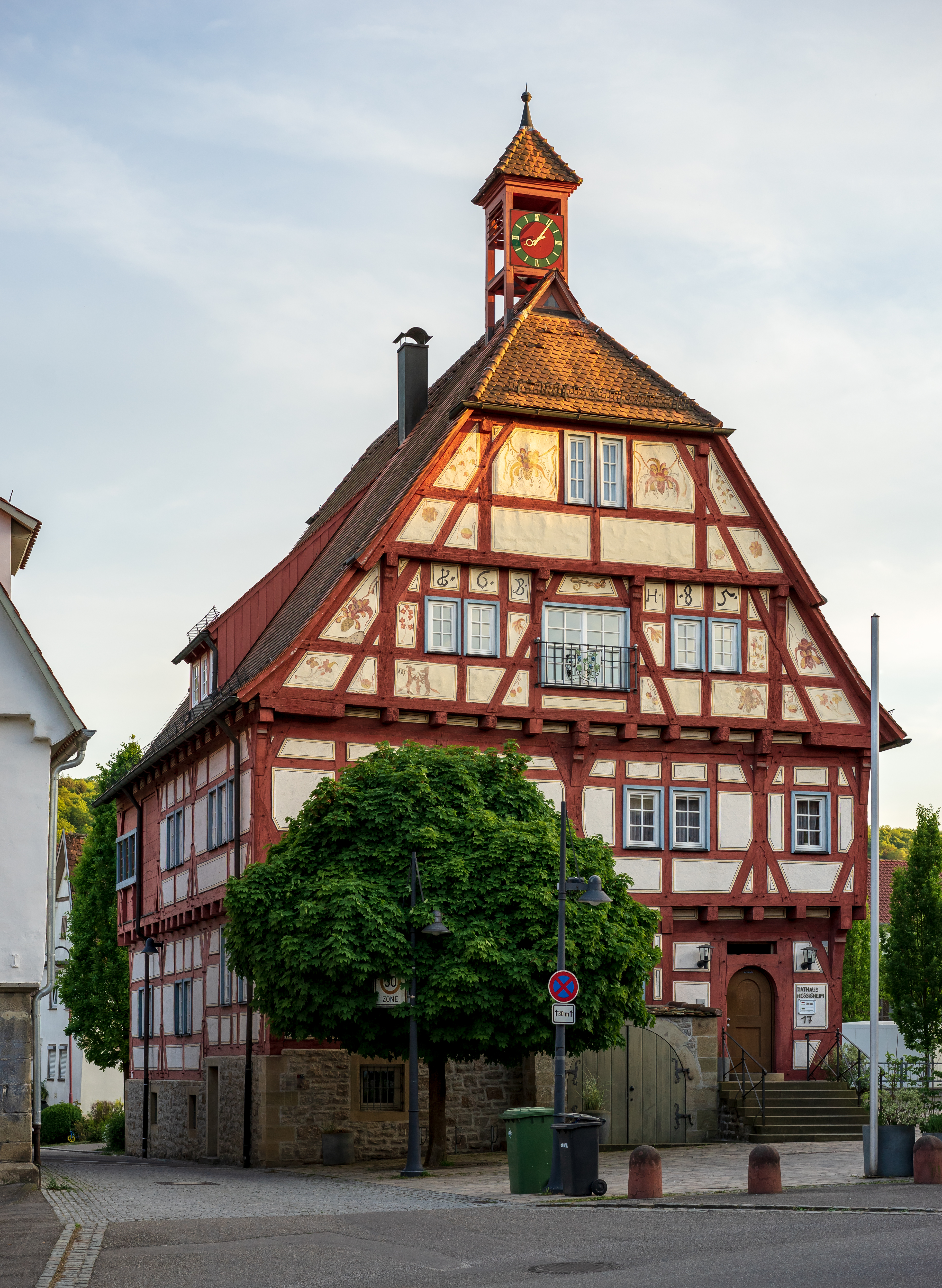 Main facade of the timber-framed town hall in Hessigheim (Baden-Württemberg, Germany), seen with evening light. According to the inscription, the town hall was built in 1685.